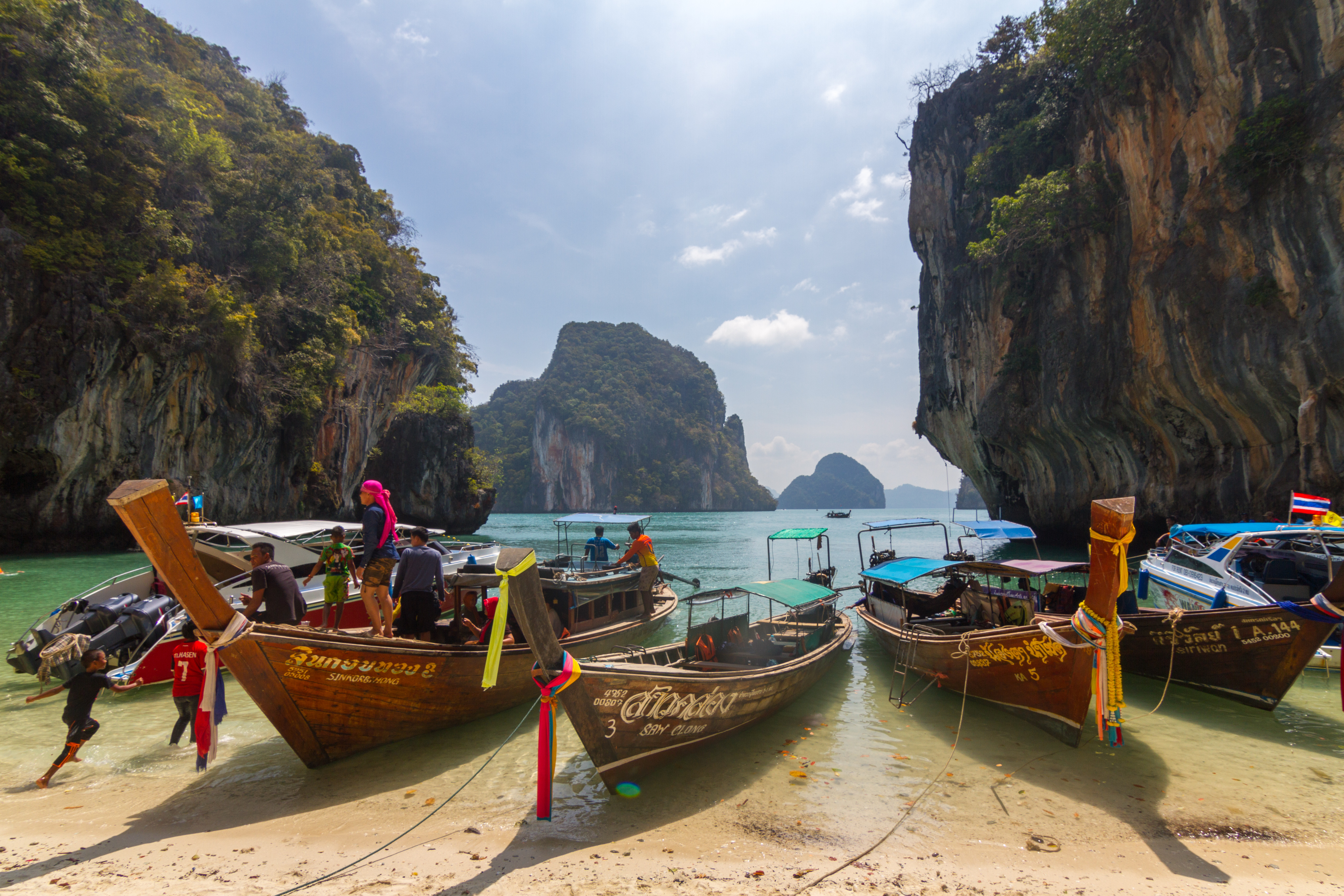 Long tail boats at Ko Lao Lading